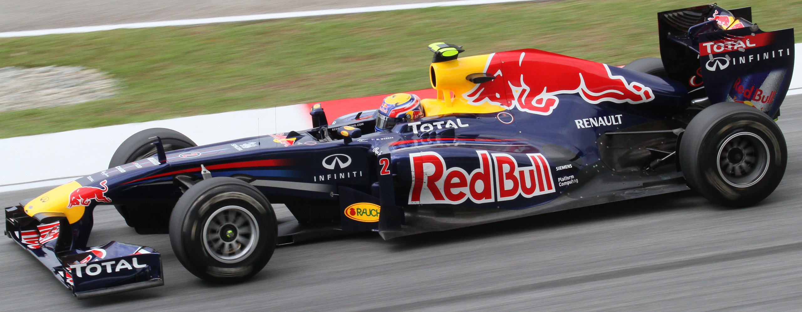 Formula One 2011 Rd.2 Malaysian GP: Mark Webber (Red Bull) during the first practice session on Friday.